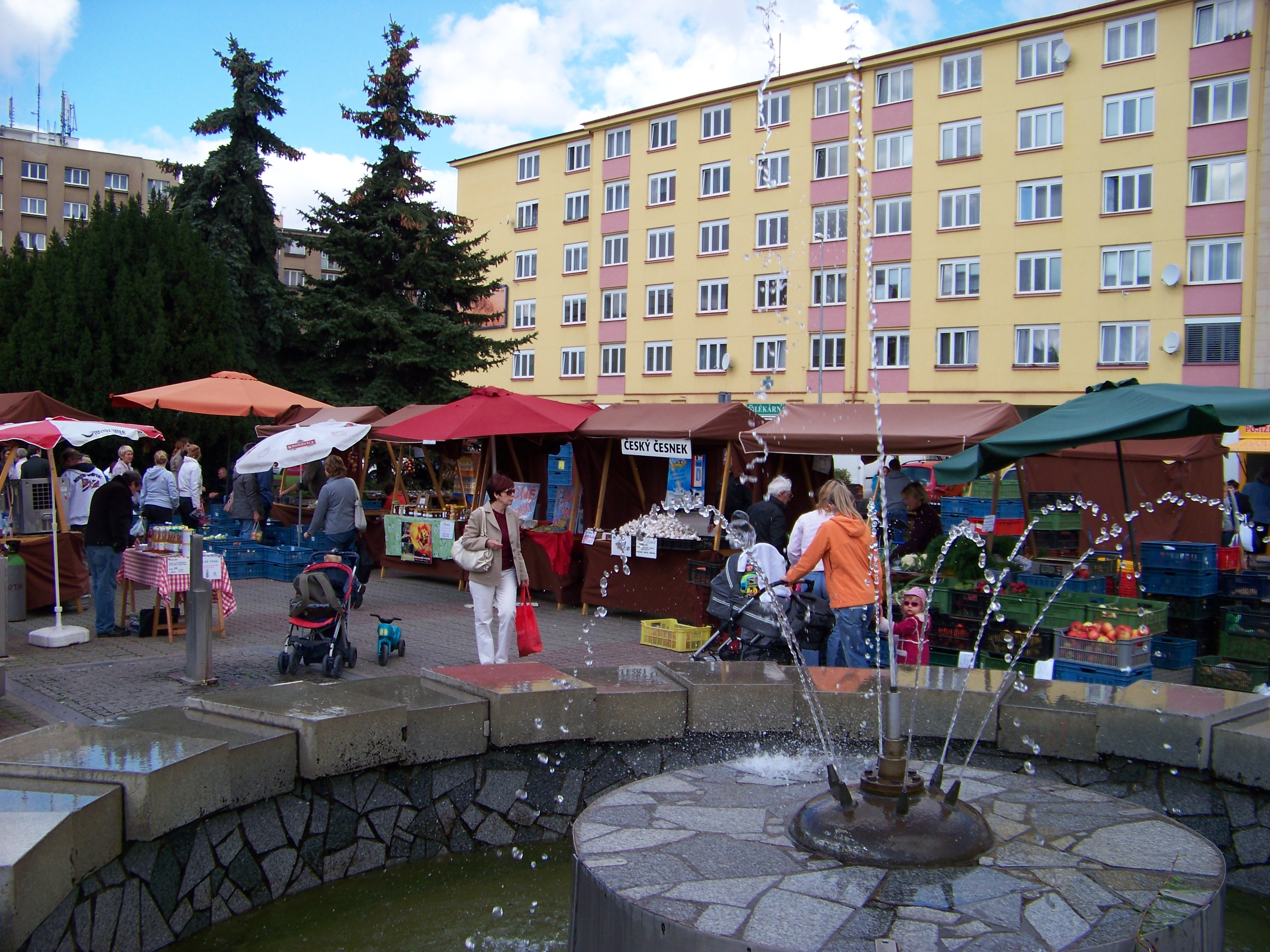 Prague-Vršovice, the Czech Republic. Kubánské náměstí, a fountain and a market.